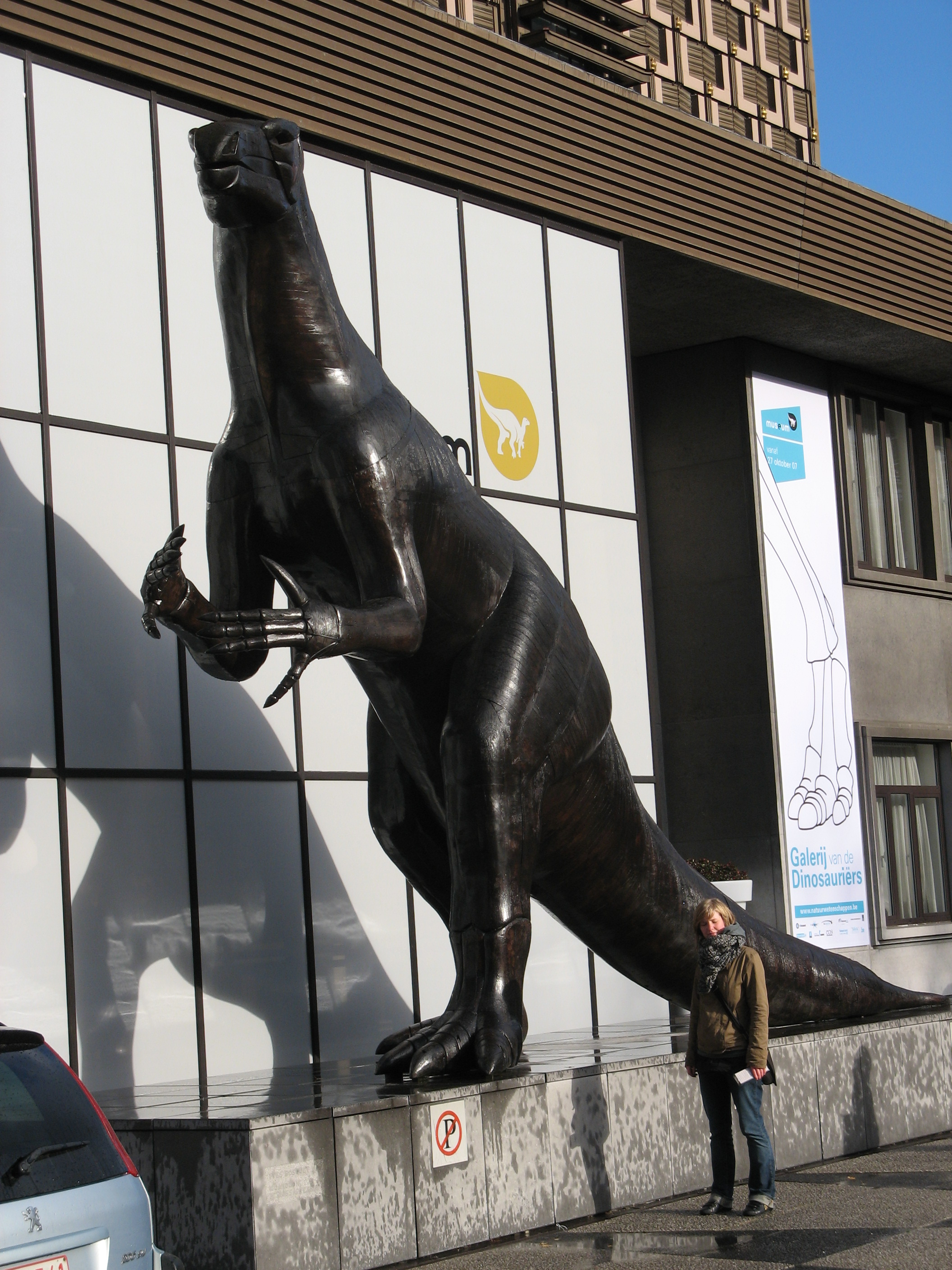 Wood model of Iguanodon